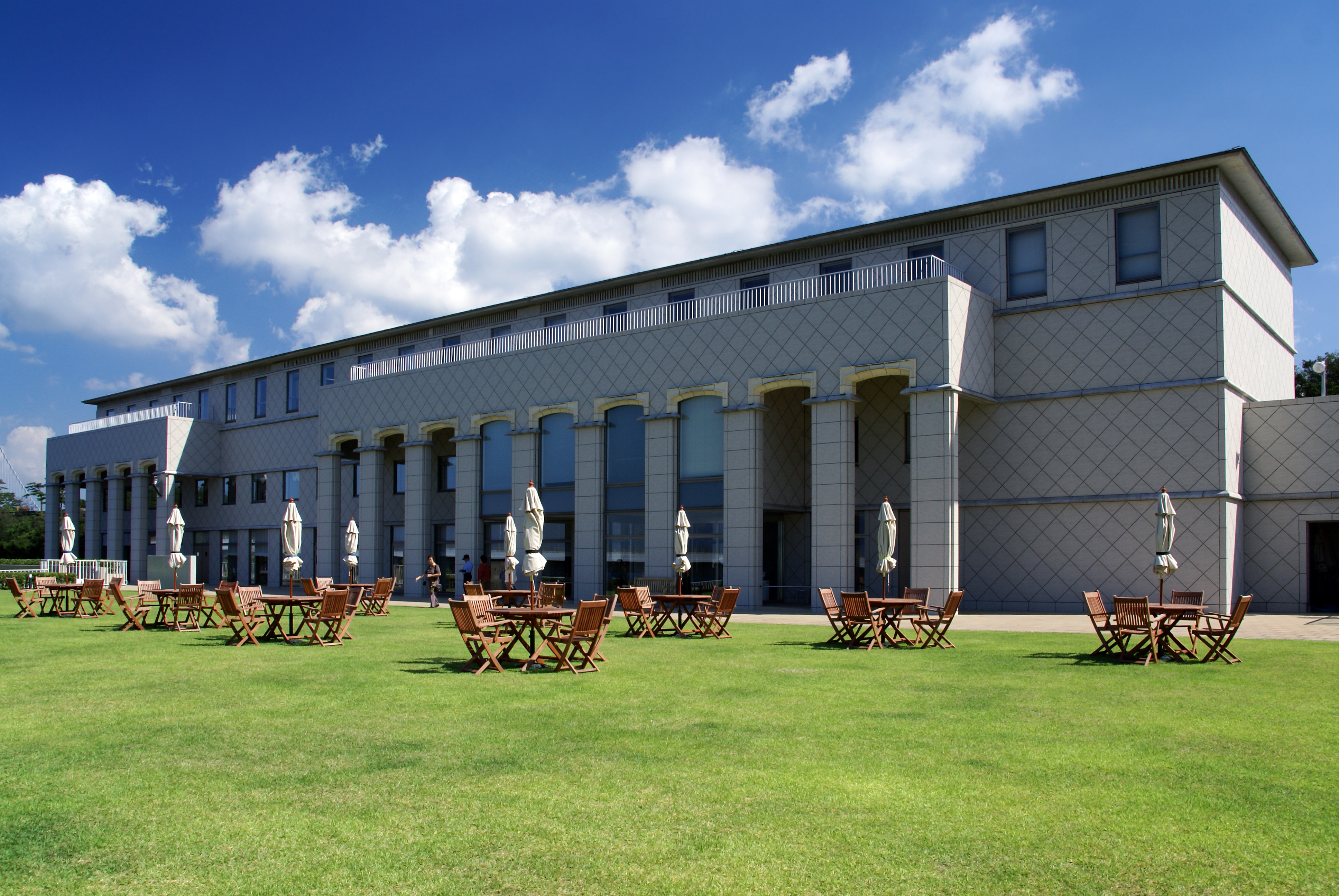 Ōtsuka Museum of Art in Naruto, Tokushima prefecture, Japan.